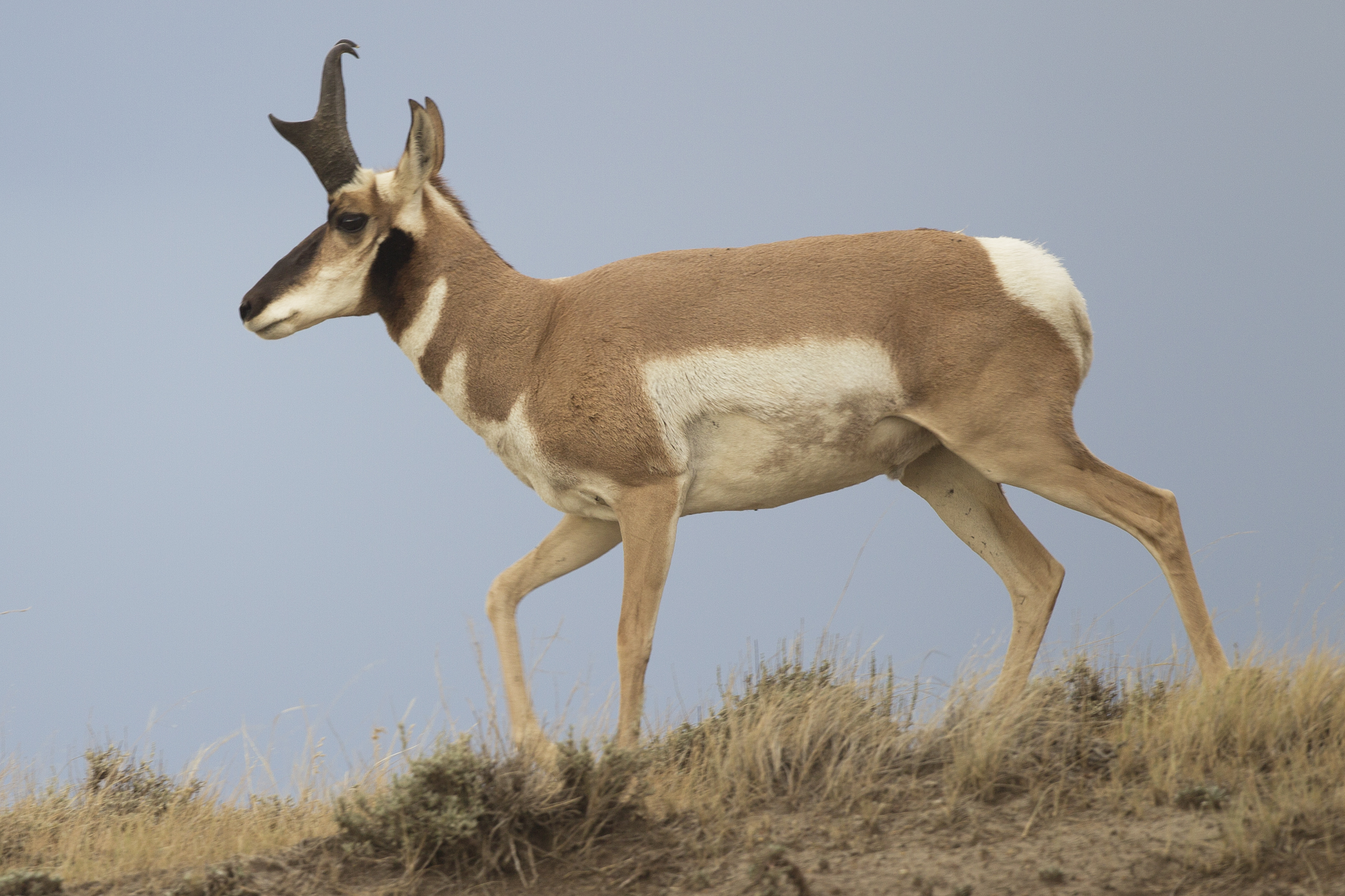 Pronghorn male in Wyoming